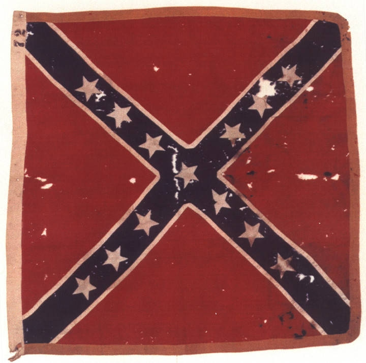 10th Alabama Infantry flag, Alabama Department of Archives and History